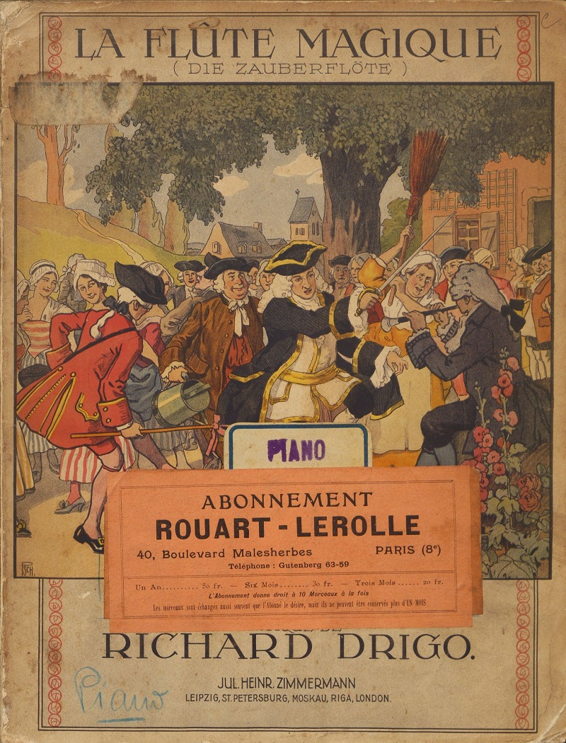 Frontispiece of the piano reduction for the composer Riccardo Drigo's score for the choreographer Lev Ivanov's ballet "The Magic Flute". (It is not frontispiece.)